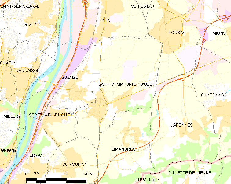 Map of French municipality